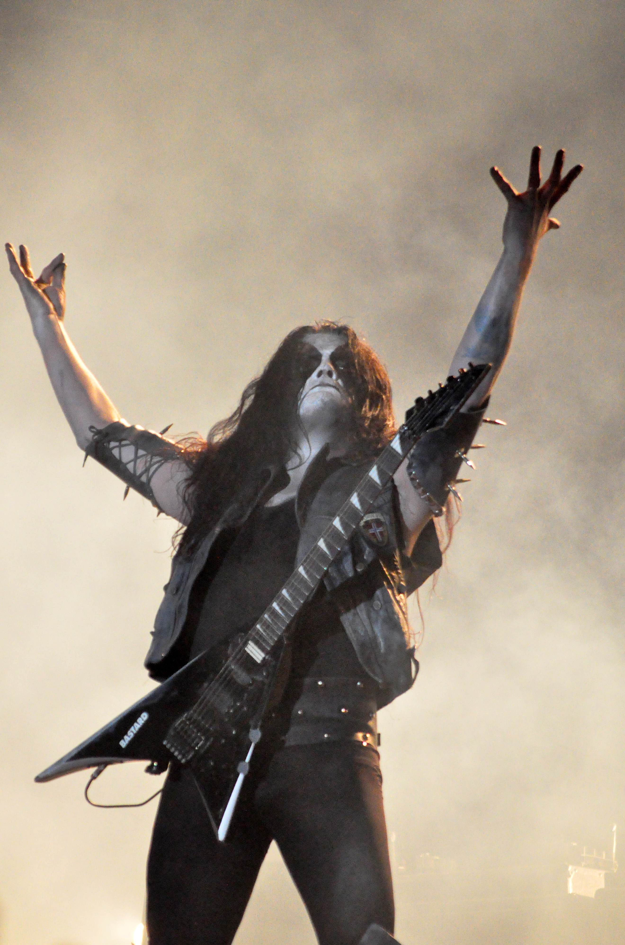 Immortal at Party.San Open Air 2012